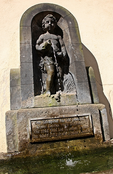 This image shows the "Erlpeter"-water well in Pirna.